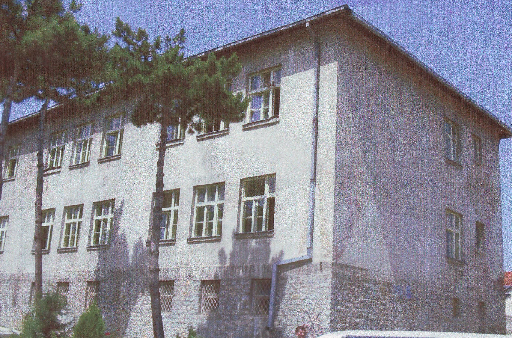 foto